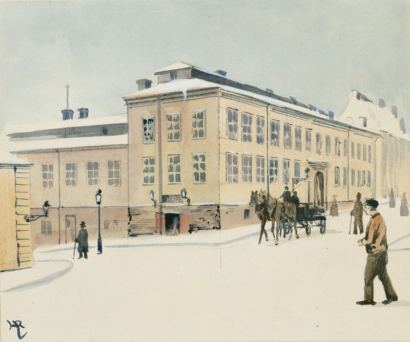 Södra Stadshuset, Ryssgården, Södermalm, Stockholm, facade to Götgatan. Material and technology: Watercolor on paper. The picture comes from Stockholmskällan. Artist: Henry Reuterdahl (1870-1925). Created 1888. Published by Stockholm City Museum. Item ID: Inventory Number SSM 503161.